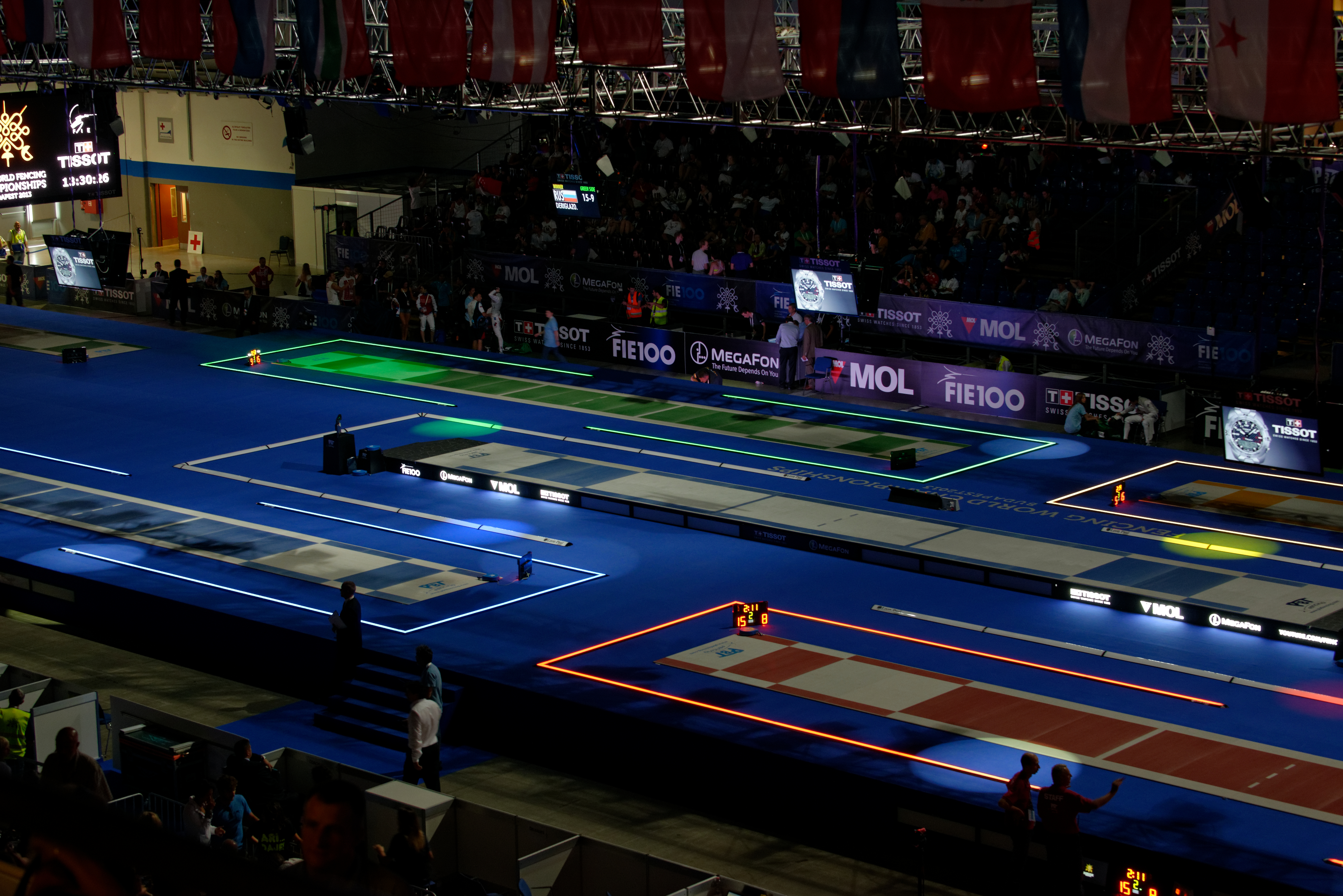 Pistes of Hall A during the men's sabre round of 64 in the 2013 World Fencing Championships at Syma Hall in Budapest, 7 August 2013.